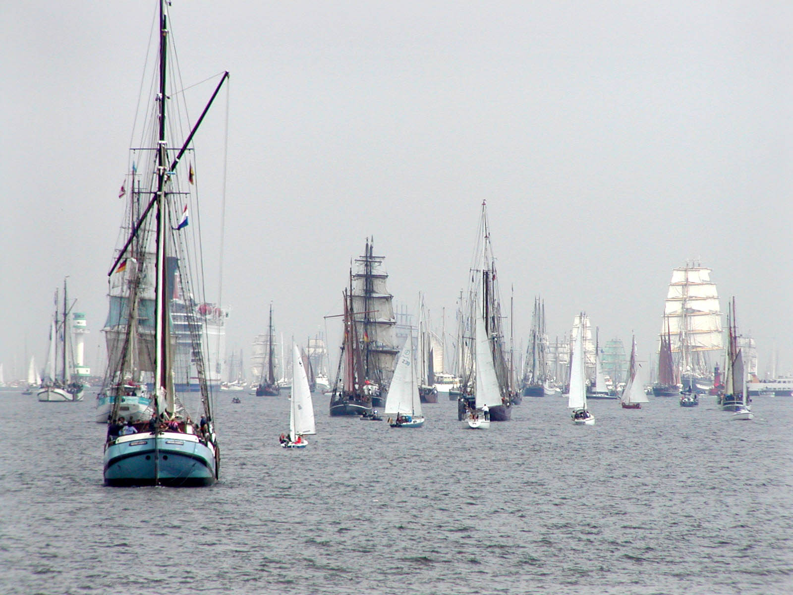 Tall ship parade Kiel Week 2007